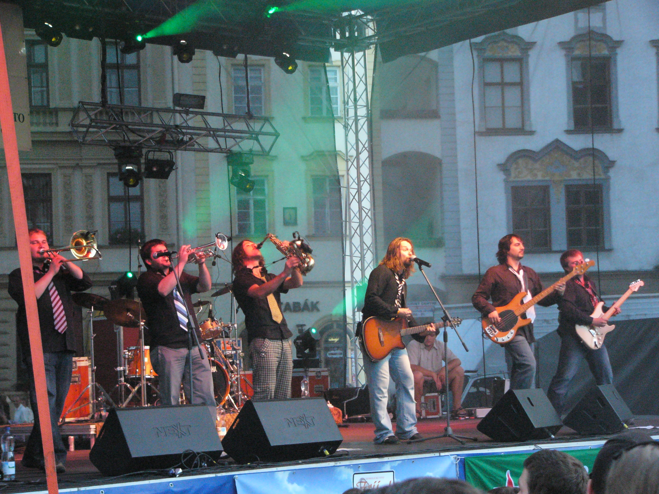 Czech music band Kryštof in June 2007 in Olomouc (Czech Republic).